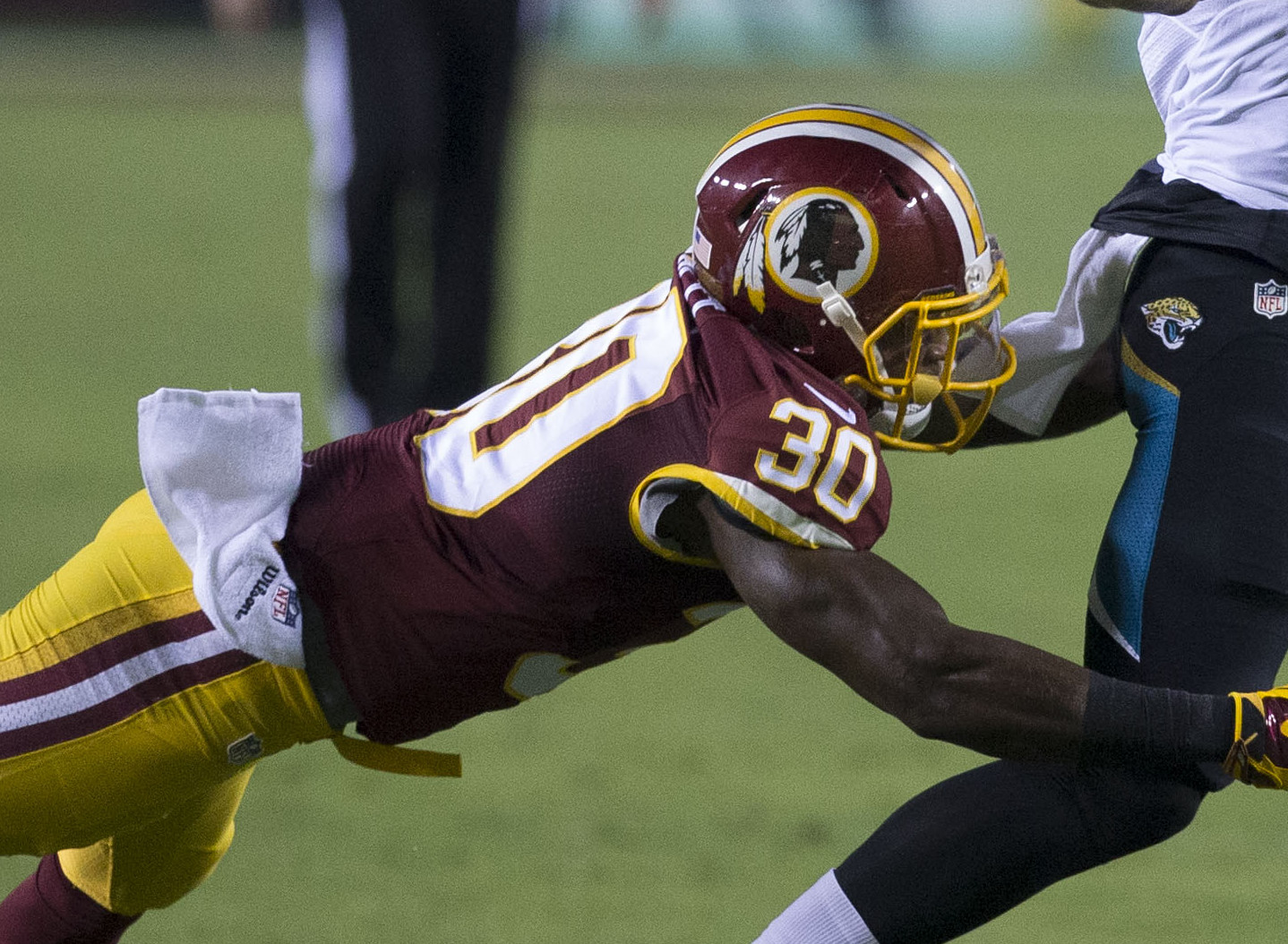 Washington Redskins safety, Kyshoen Jarrett, playing against the Jacksonville Jaguars in the fourth 2015 preseason game on September 3, 2015.